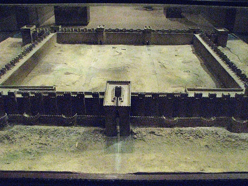 Reconstruction modell of the Buhen Fortress at Nubian Museum, Aswan